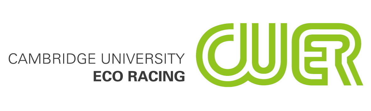 Cambridge University Eco-Racing (CUER)'s brand logo for 2012 onwards